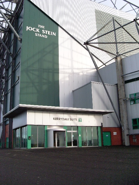 Kerrydale Suite, Jock Stein Stand The largest function suite in Celtic Park, the Kerrydale Suite offers a fantastic view of the stadium.